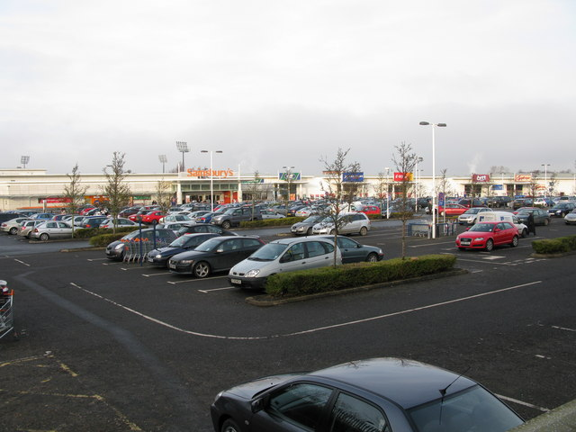 Hamilton Retail Park With the floodlights of New Douglas Park, home of Hamilton Academical FC, in the background.